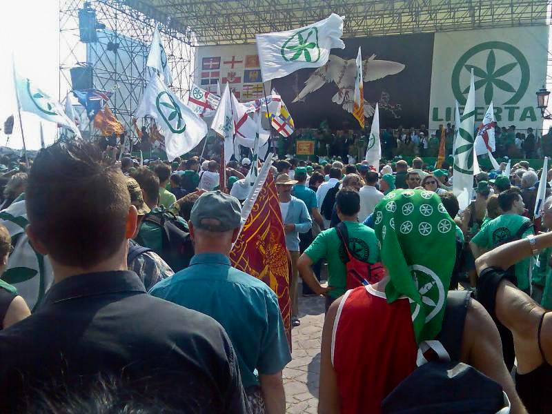 Northern League's supporters at the traditional meeting that takes place at Venice every year in september. Includes many occurrences of 6-pointed green emblem in circle